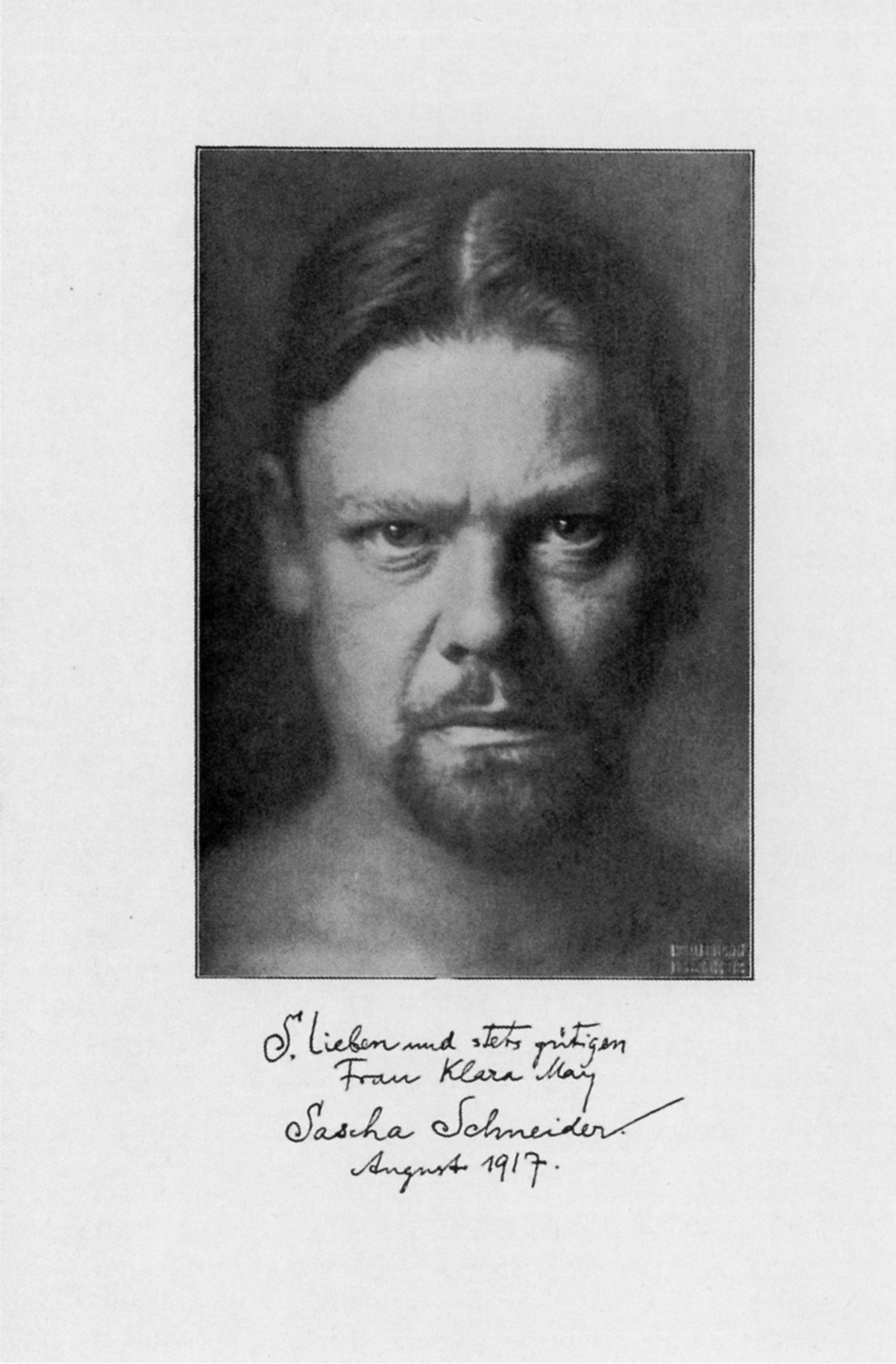 Portrait photograph of Sascha Schneider by Hugo Erfurth (taken 1904) with handwritten dedication to Klara May dated August 1917